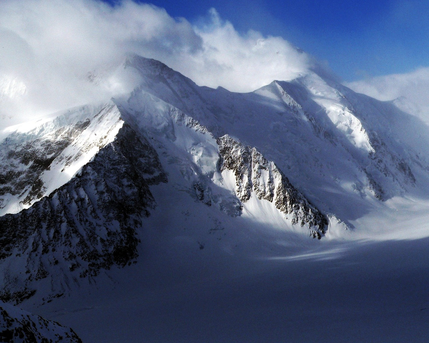 Dreieckhorn and Aletschhorn from Konkordia